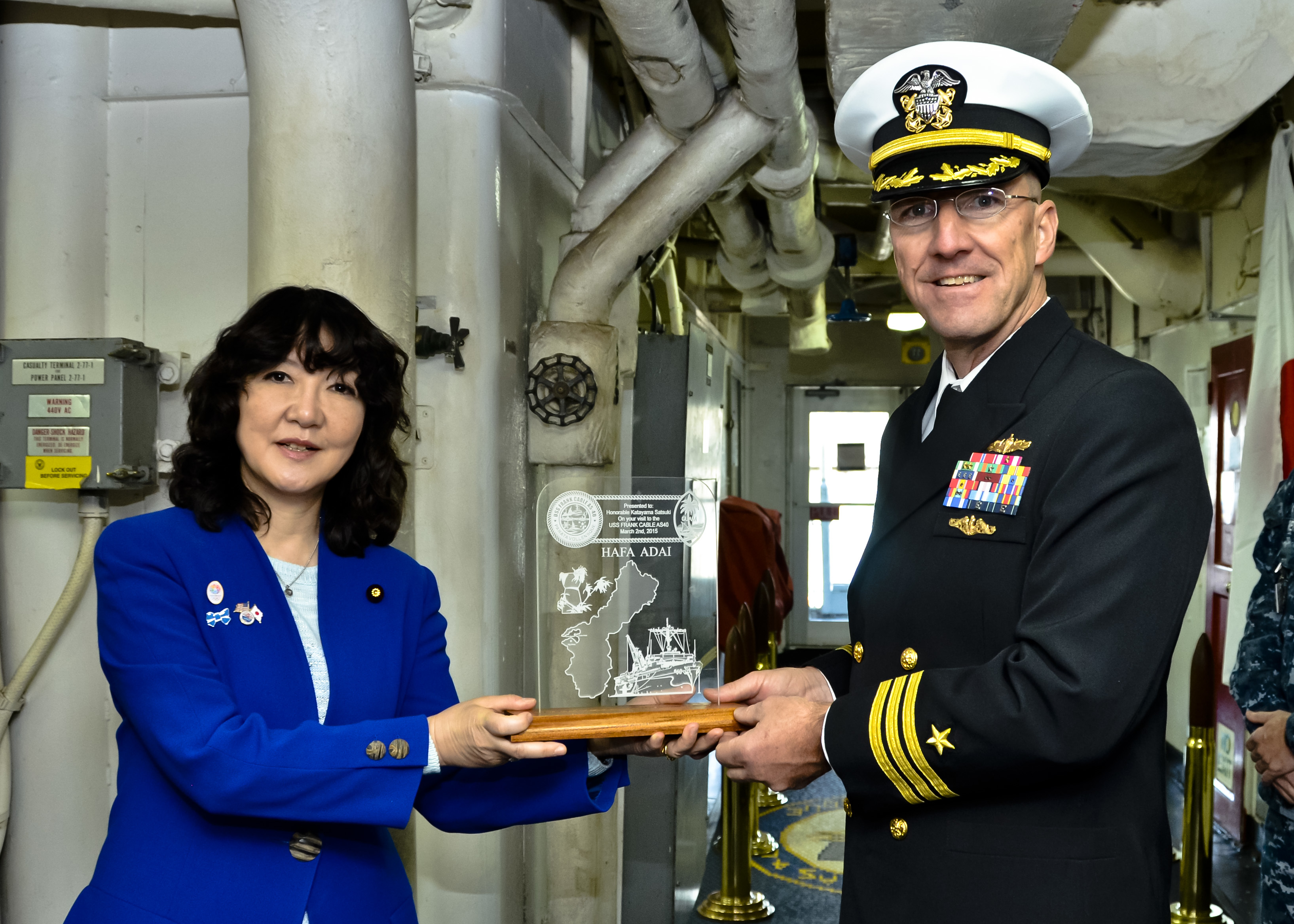 150302-N-WZ747-214: SASEBO, Japan Cmdr. Tom Gorey, executive officer of the submarine tender USS Frank Cable, presents a ship plaque to Satsuki Katayama, Japanese House of Councillors member, and chairwoman for the Committee on Foreign Affairs and Defense, March 2. The members of the JHC came aboard to acquire knowledge about the role and function of the ships and facilities of Sasebo to aid in discussing issues related to the Japan-US alliance. Frank Cable, forward deployed to the island of Guam, conducts maintenance and support of submarines and surface vessels deployed to the U.S. 7th Fleet area of responsibility and is currently on a scheduled underway period.